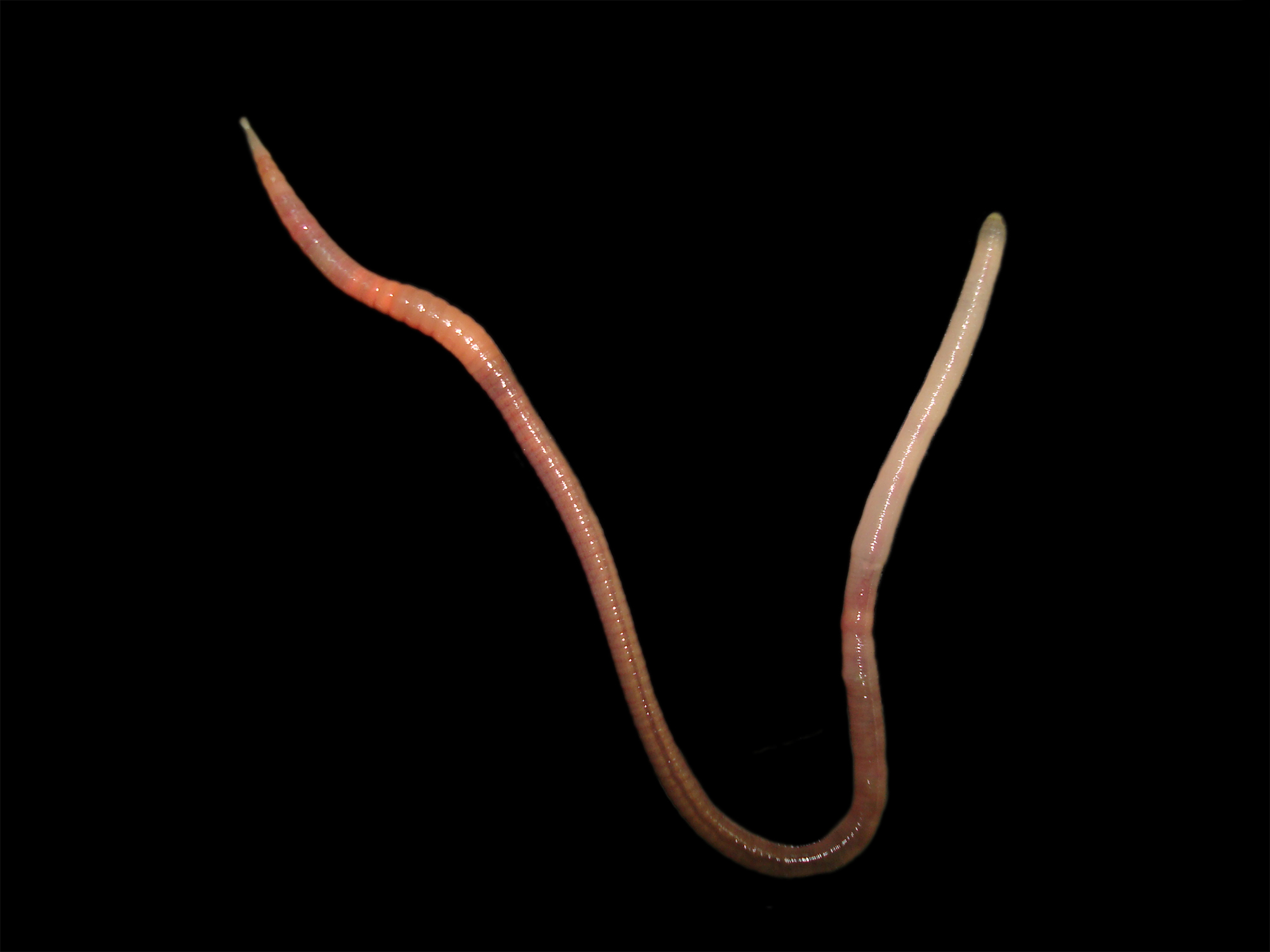 Pontoscolex corethrurus (Müller, 1857) (Clitellata, Lumbricina)